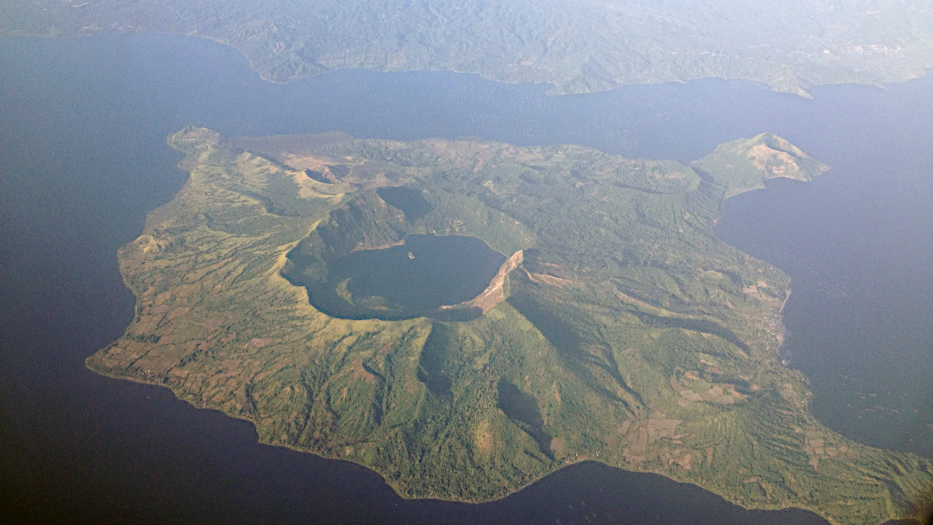 Aerial photo of Taal Volcano, taken on a Cebu Pacific flight from Manila to Dumaguete City on December 22, 2012.